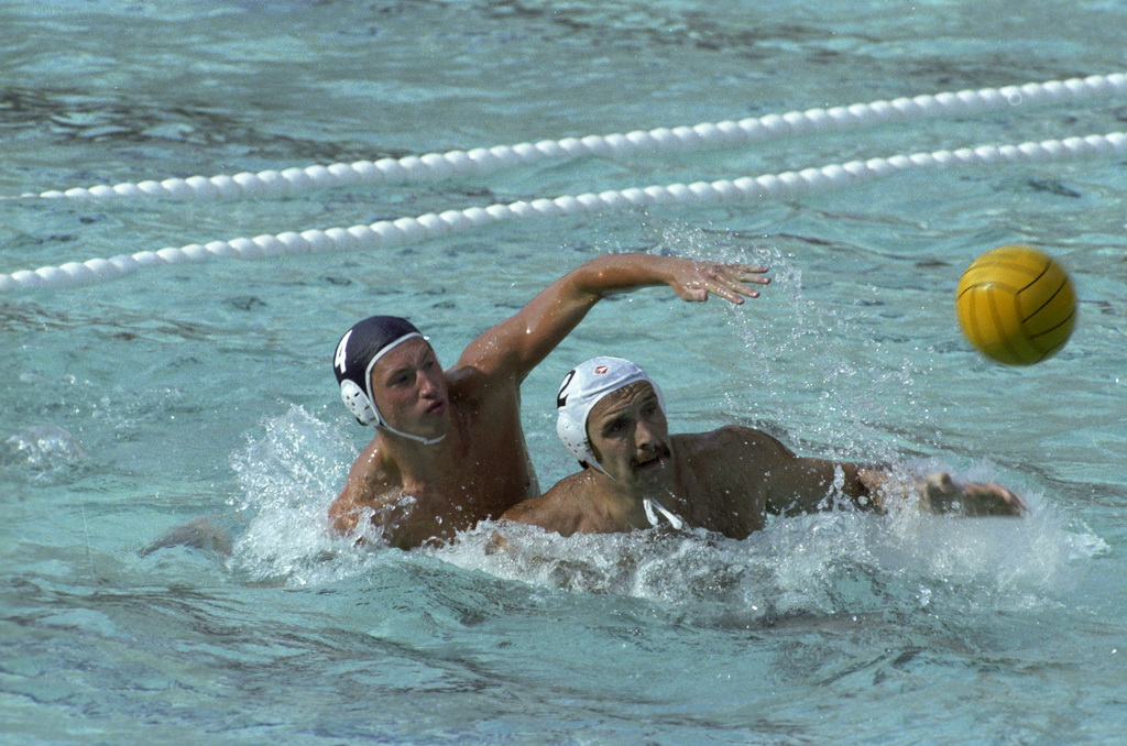 “Water polo. USSR vs. Hungary”. Moscow, V.I.Lenin Central Stadium's swimming pool, the 22nd Olympic Games. Water polo match between the national teams of the USSR and Hungary. Soviet water polo players won 5-4. Eugeny Grishin ( #4) and Istvan Szivos (#2) fighting for a ball.